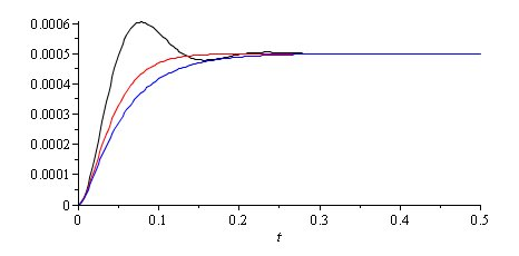 Step response of a damped mass spring system